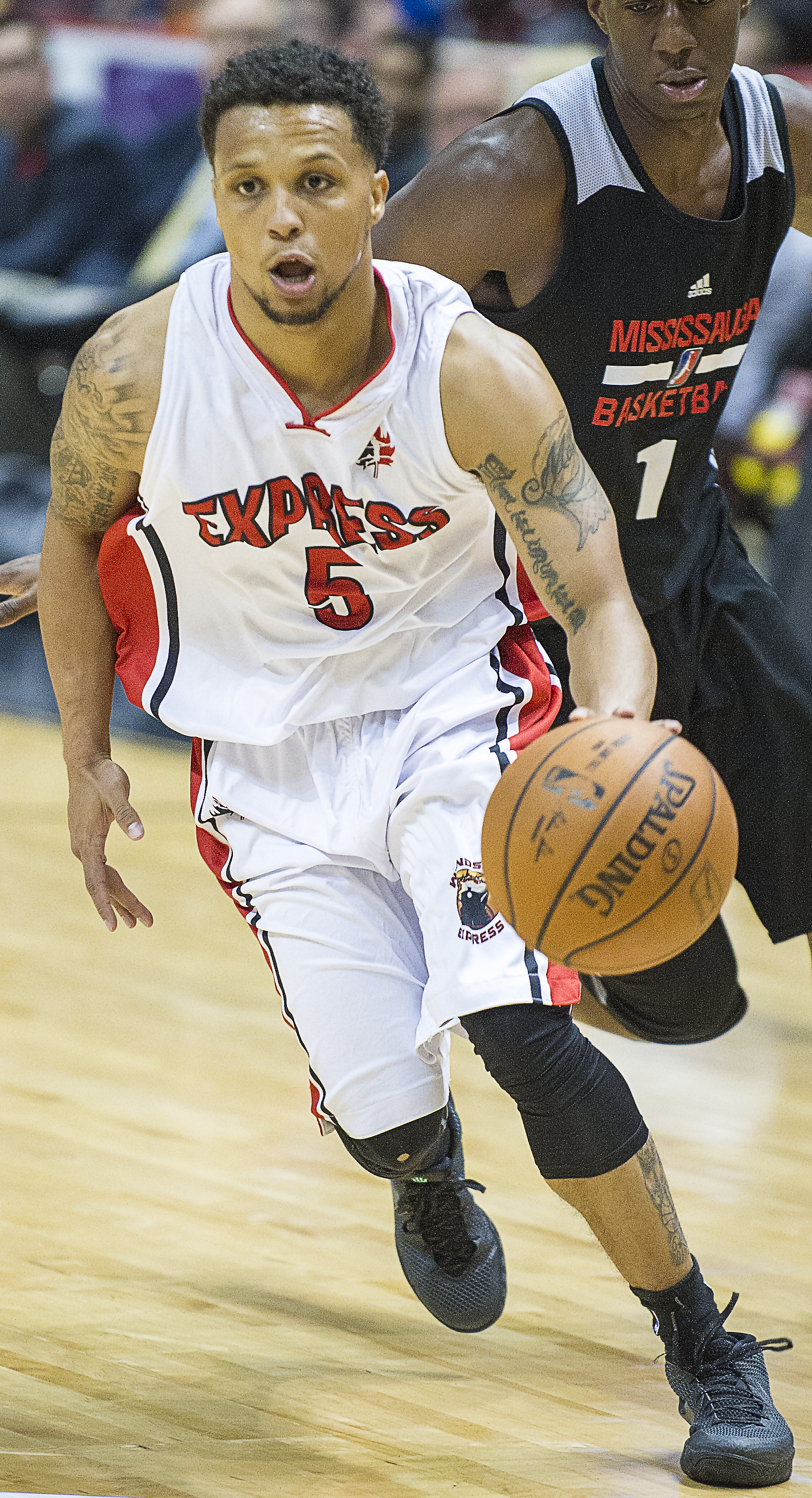 NOV-5 Windsor Express Vs Raptors 905 WFCU Center